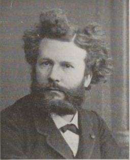 Camille Flammarion, Founder of Société astronomique de France and President from 1887-1889